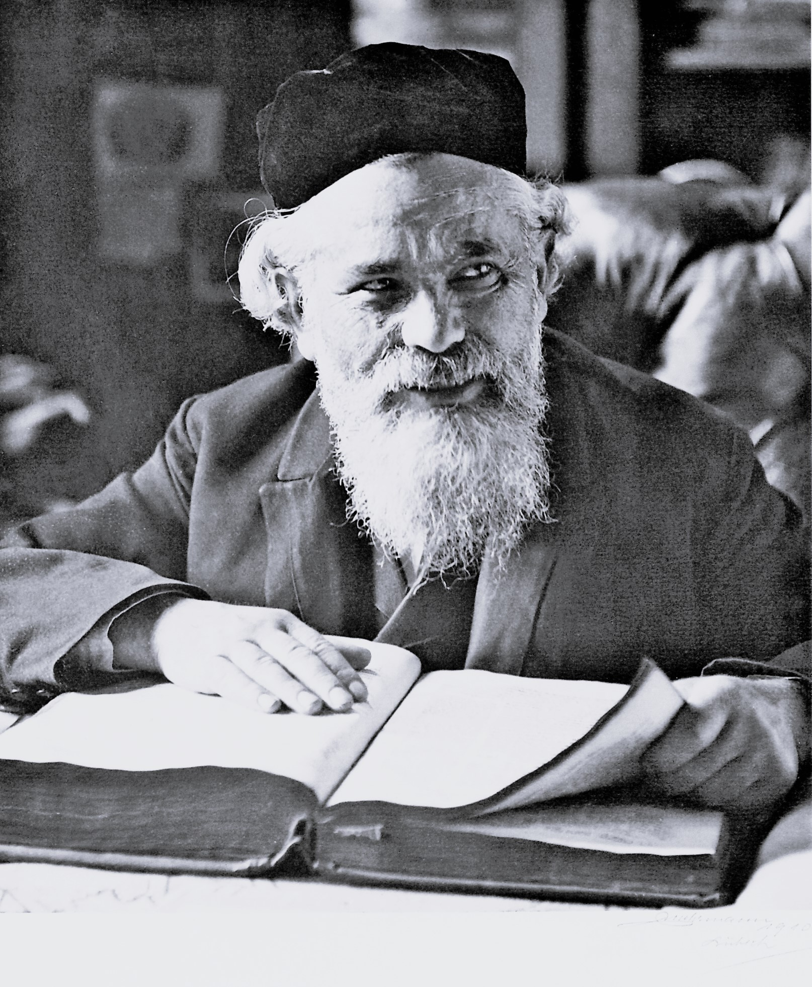 Salomon Carlebach (1845-1919), German rabbi